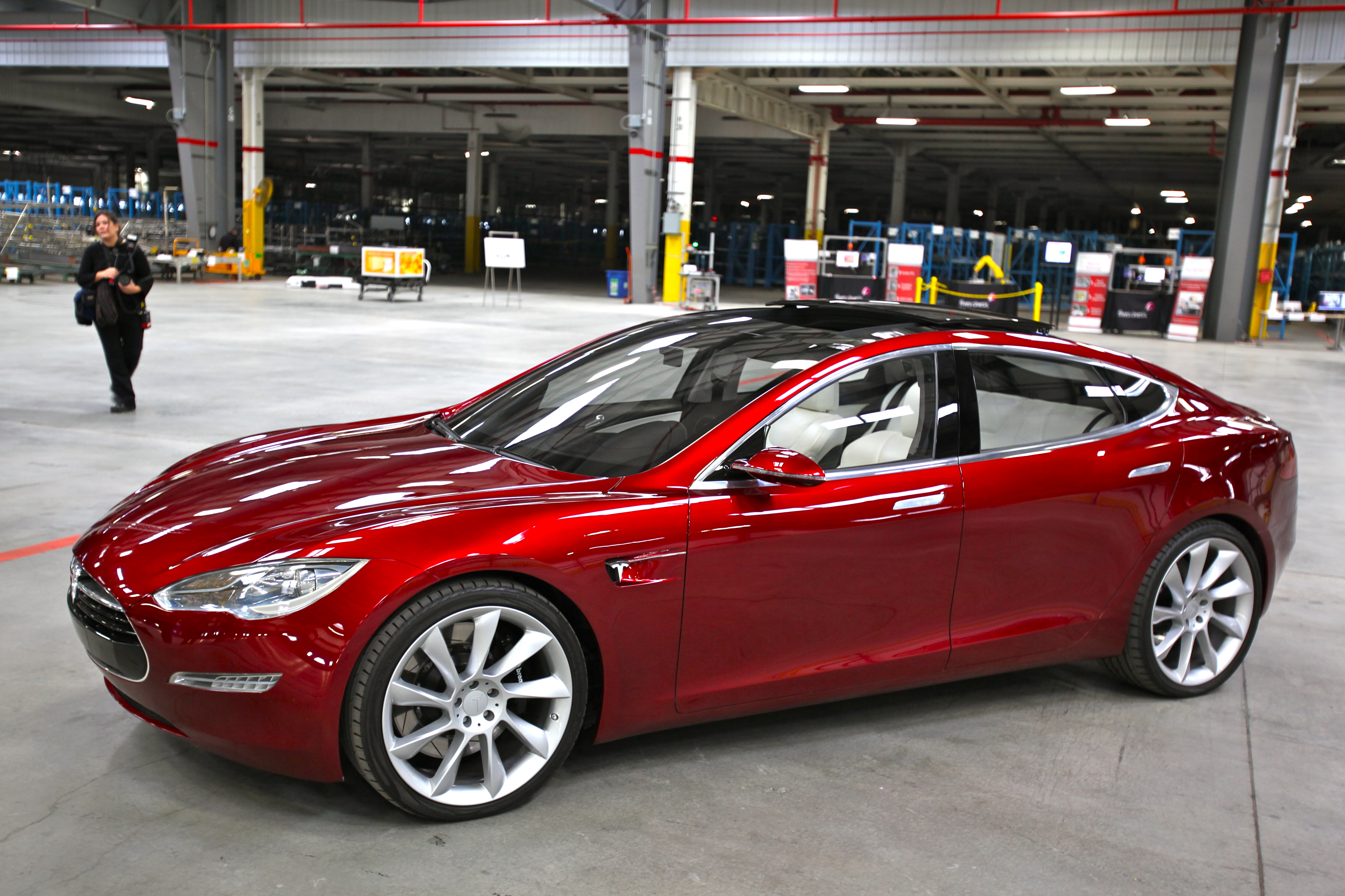 Tesla Model S pre-production prototype